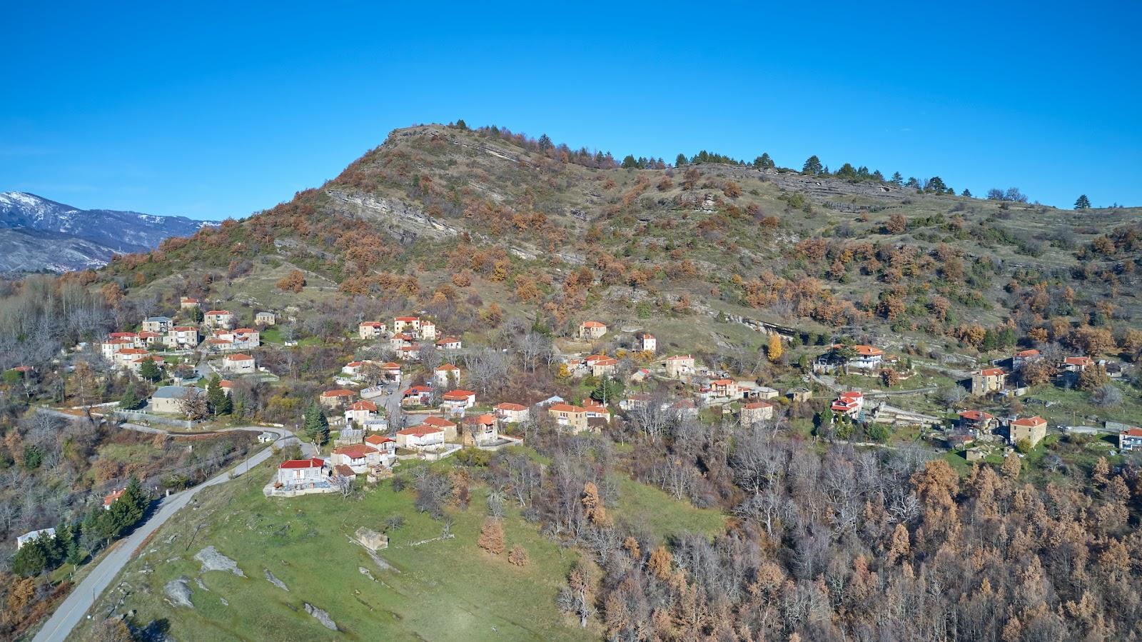 View of Dasyllio Grevena